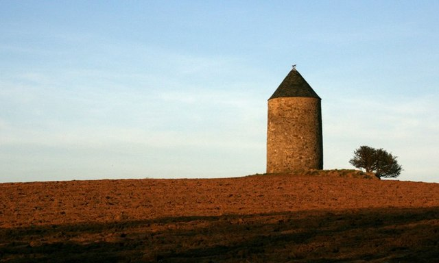 The windmill at Monkton, Ayrshire.